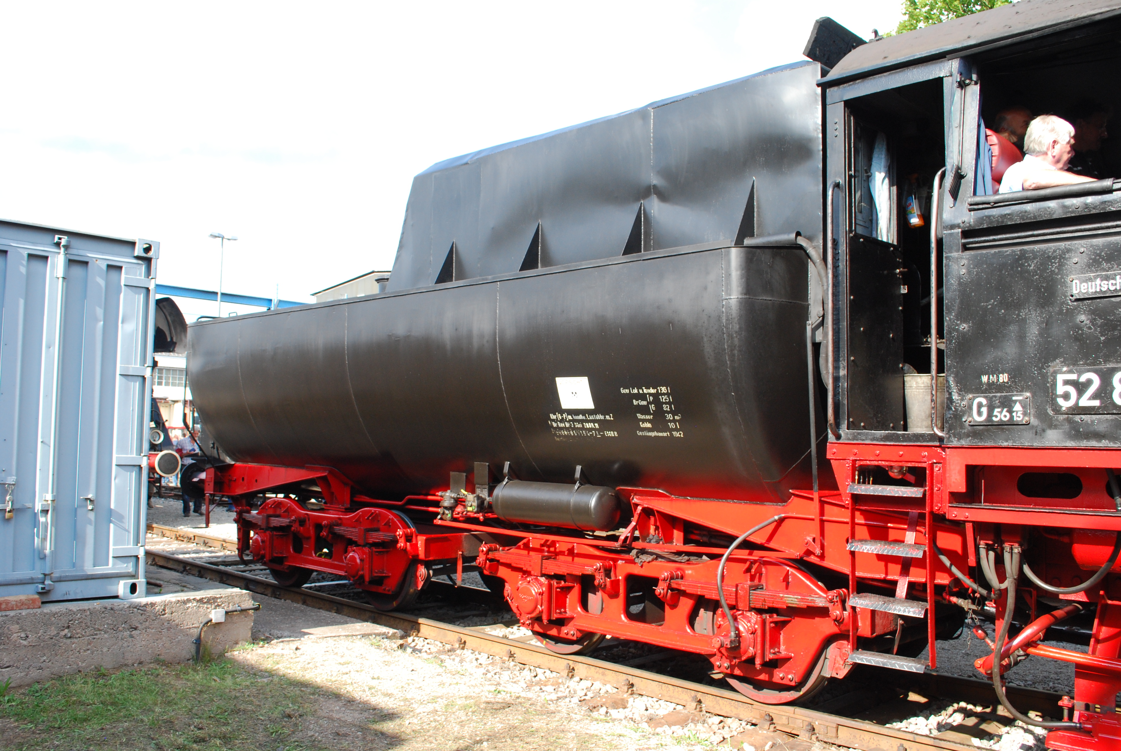 DR 2'2'T30 "Kriegslok" bath-tub tender (5,900 gll water, 10 tons coal) at the Meiningen Steam Festival.